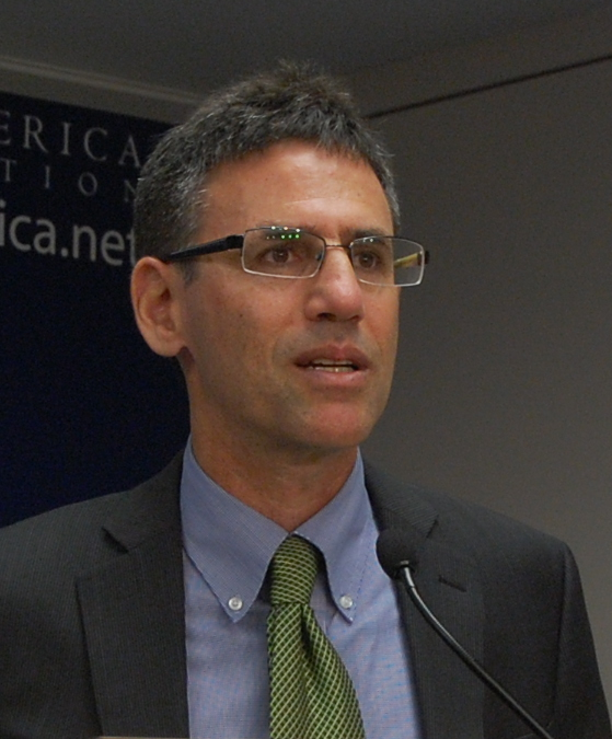 Speaking at the 10/19/2011 event "What Will Turn Us On in 2030?", sponsored by the New America Foundation.